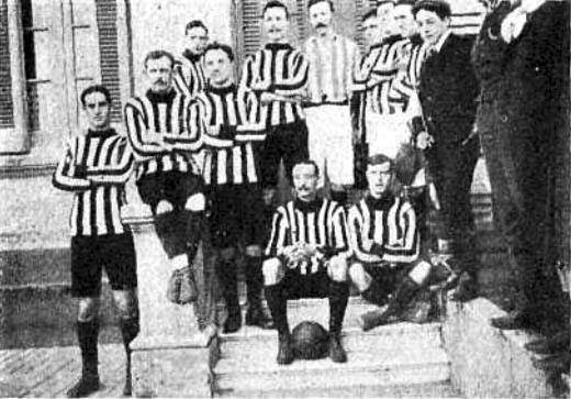 The Quilmes A.C. team that played South Africa in 1906 posing at Sociedad Sportiva.